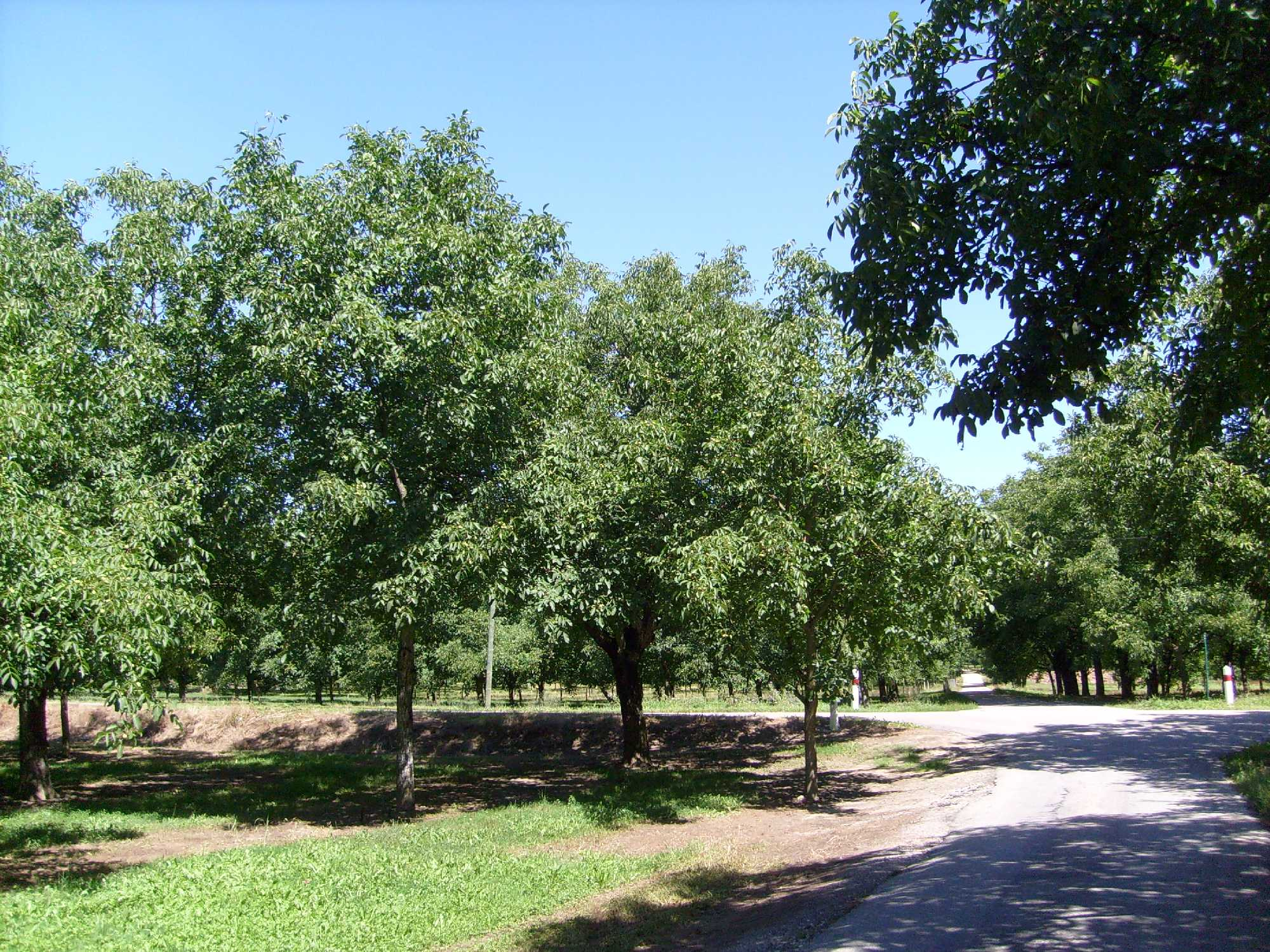 Walnut trees at L'Albenc (Isère, France).